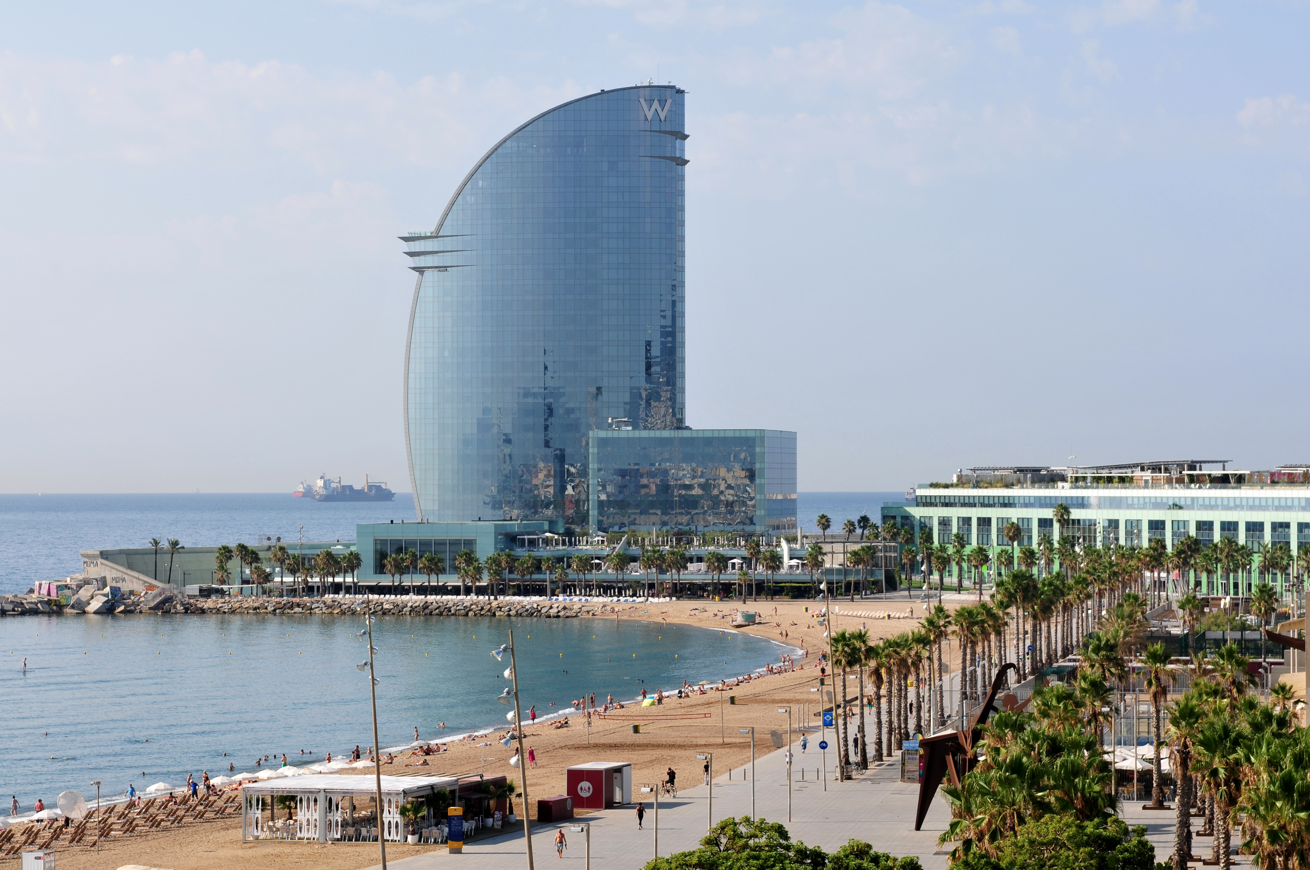 Hotel W, Barcelona The making of this work was supported by Wikimedia Austria. For other files made with the support of Wikimedia Austria, please see the category Supported by Wikimedia Österreich.